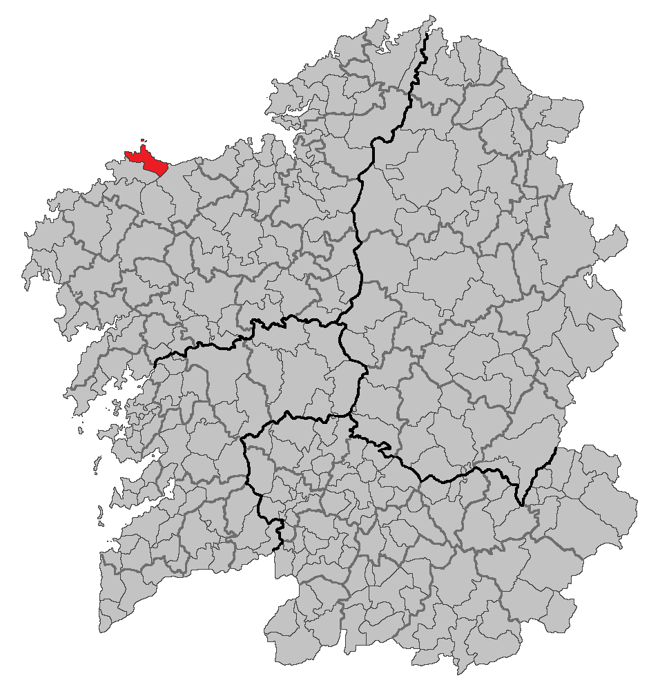 Location map of Malpica de Bergantiños, A Coruña, Galicia